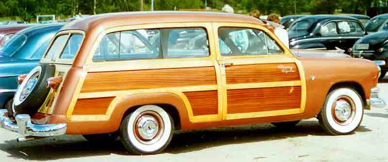 Ford Custom Deluxe Country Squire Station Wagon 1951